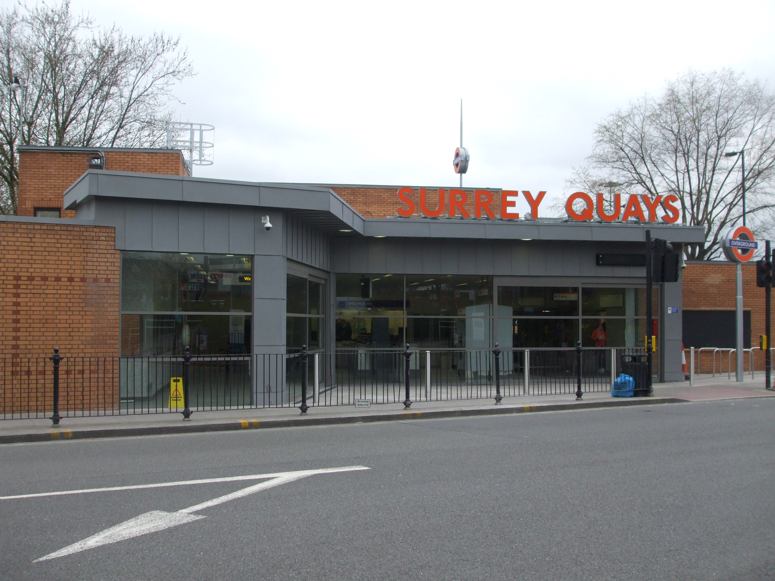 Surrey Quays station. Main entrance shortly before re-opening as a London Overground station in April 2010.